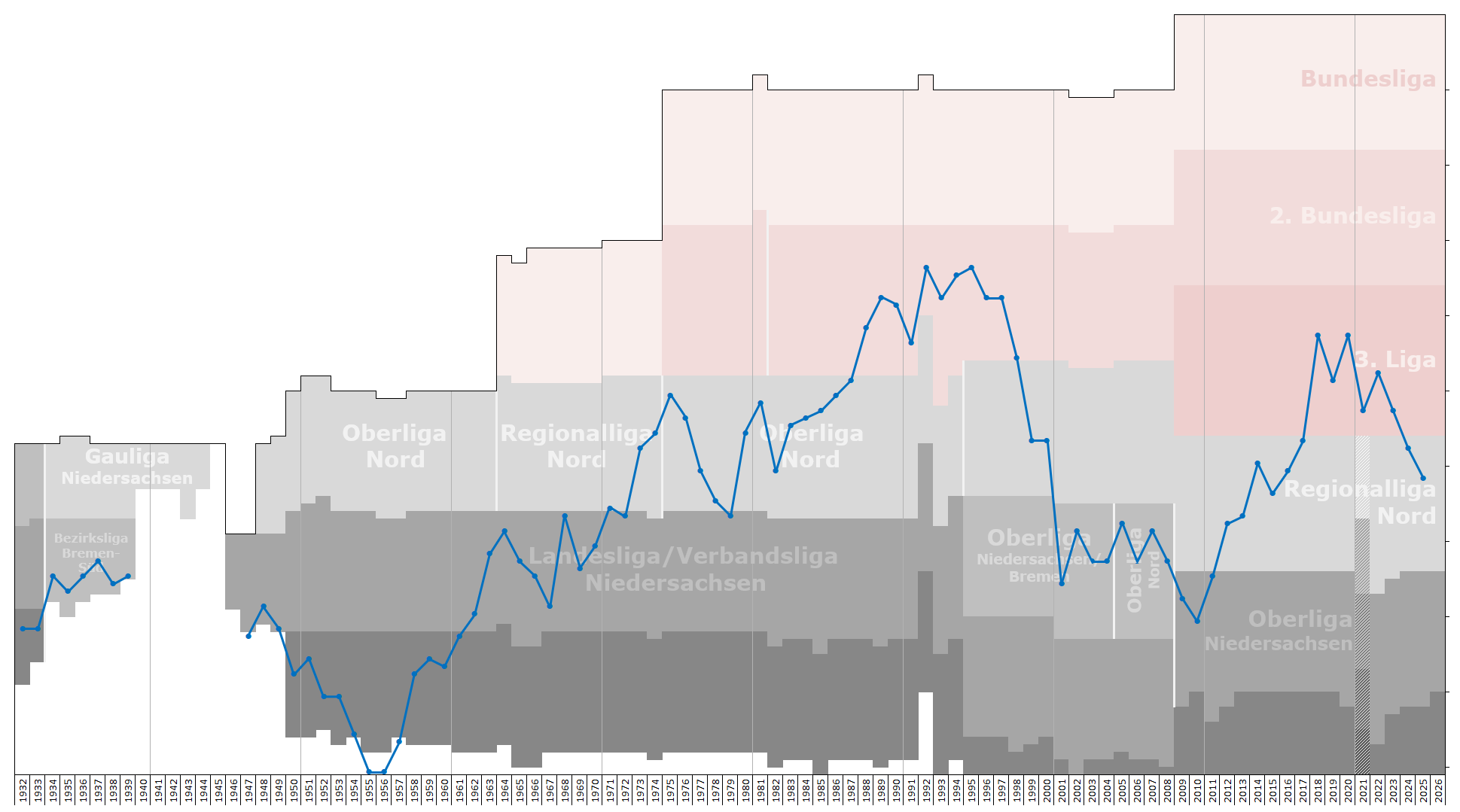 Chart of end-season table positions of SV Meppen in the football league system of Germany. Data source: RSSSF, wikipedia, f-archiv.de, fussball.de